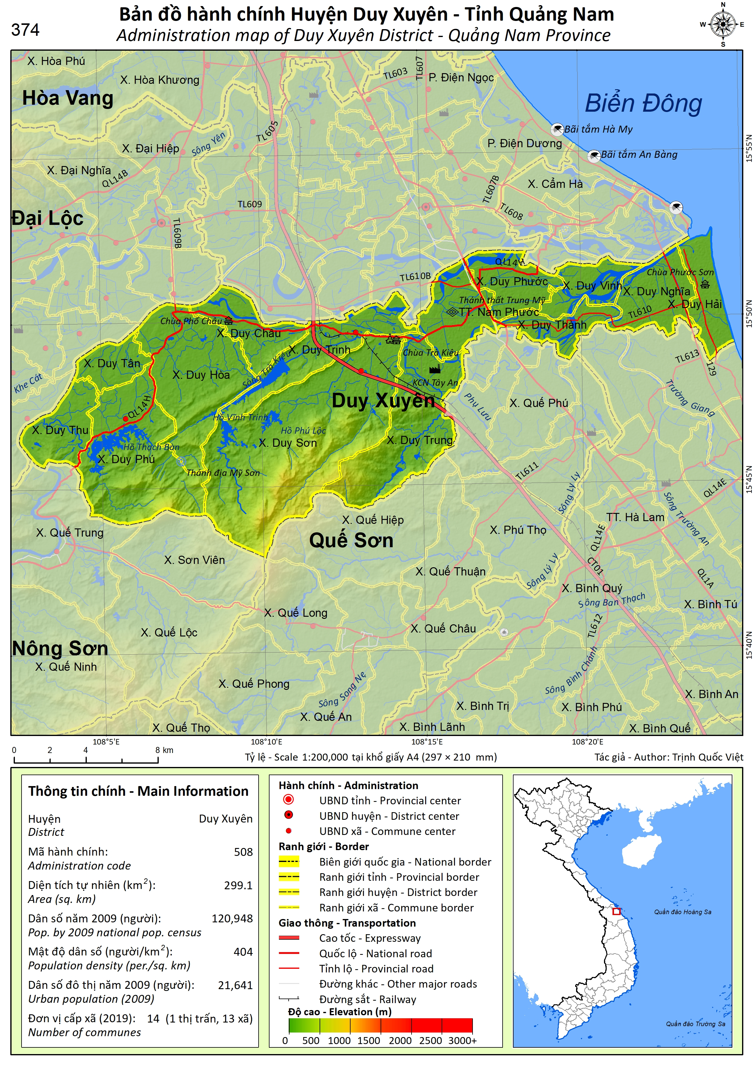 Administration map of Duy Xuyen District, Quangnam Province